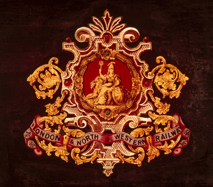 Photograph of the coat of arms of the London & North Western Railway.